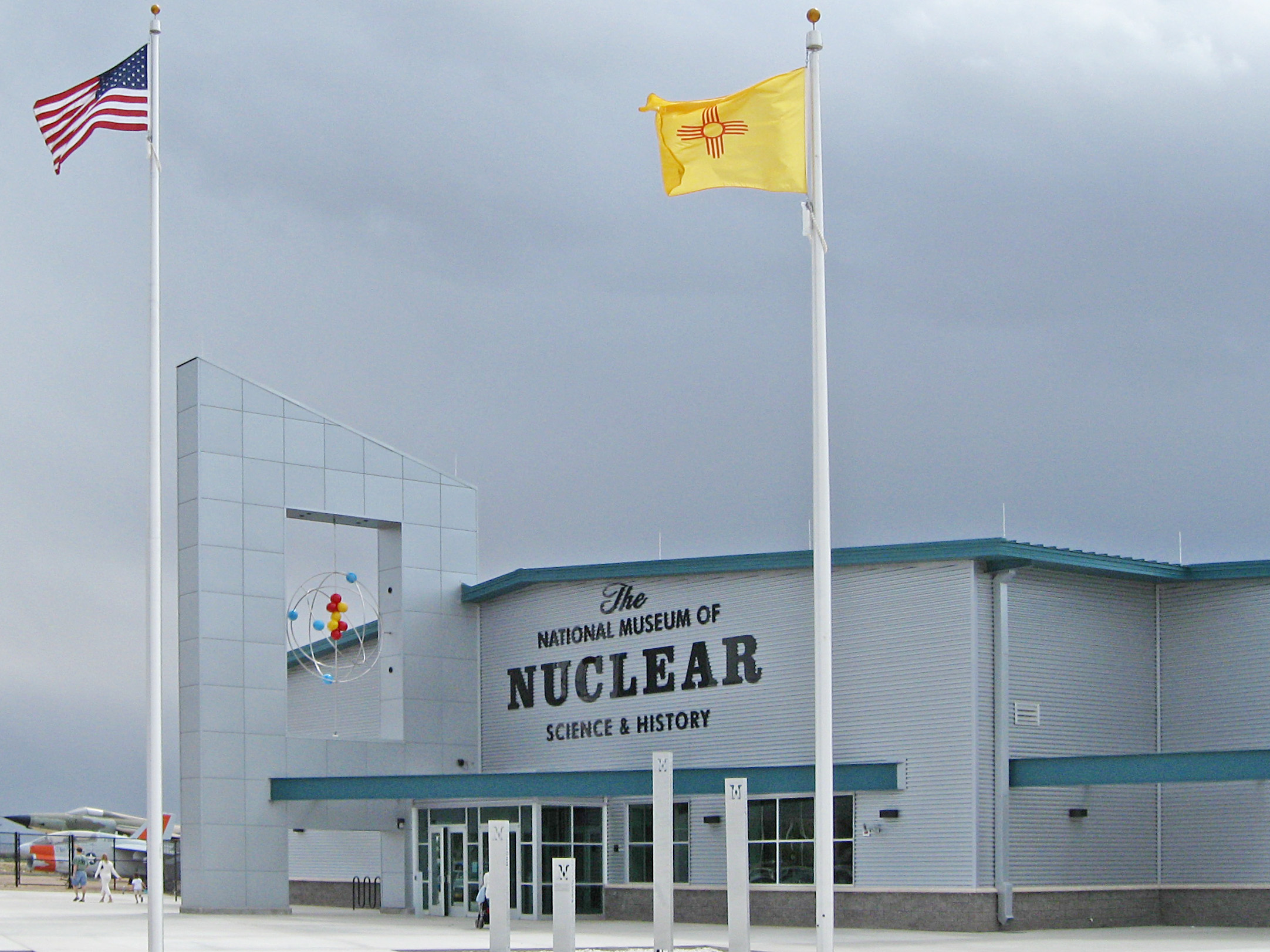 National Museum of Nuclear Science and History, located at 601 Eubank Boulevard SE in Albuquerque, New Mexico